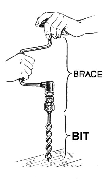 line art drawing